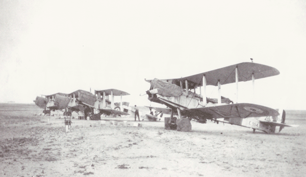 Airco DH.9As of No. 27 Squadron RAF at Alrigei, Kuwait, 1928.